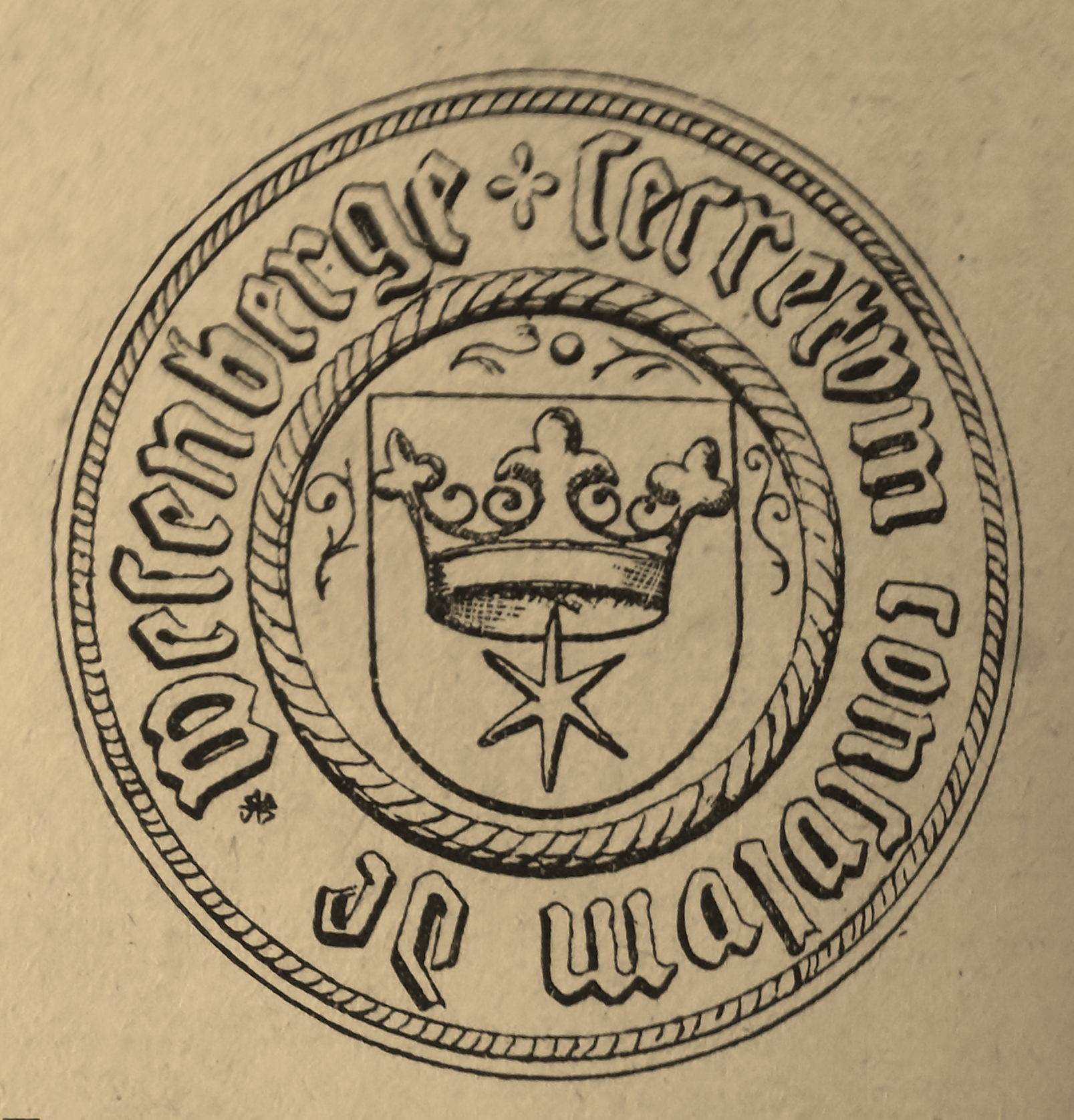 Rakvere city seal in 14 century